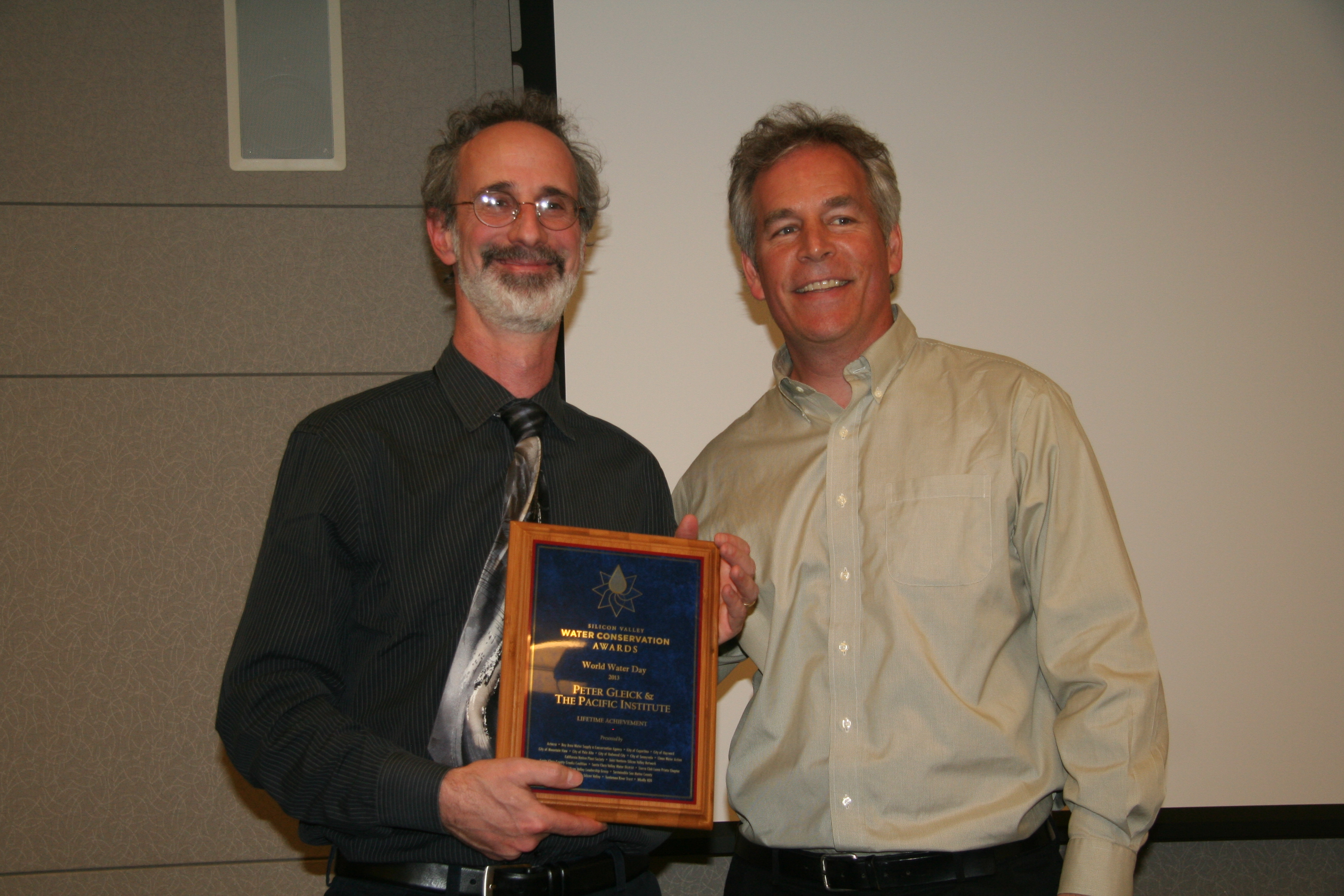 21 March 2013. Left to right: Dr Peter Gleick, of the Pacific Institute, and Peter Drekmeier, of the Tuolumne River Trust, at the Silicon Valley Water Conservation Awards, where D. Gleick received a Lifetime Achievement Award. Martin Luther King Library at San Jose State University, San Jose, California, USA.